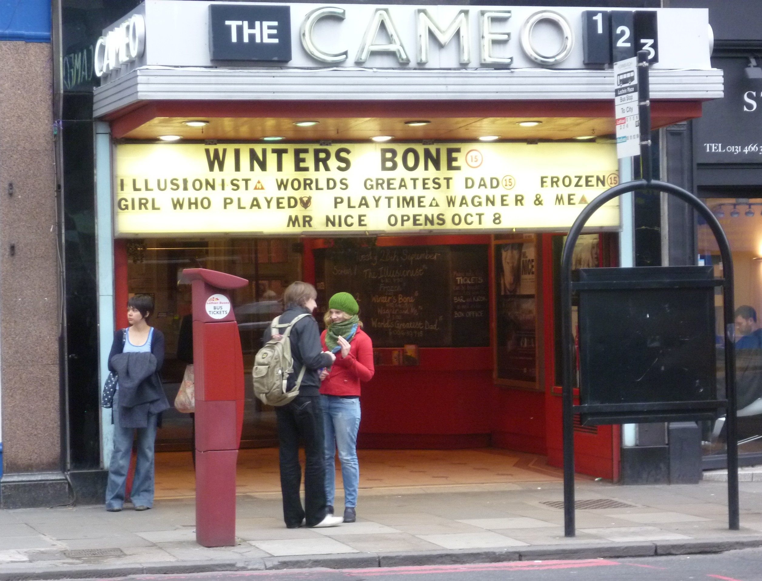 The Cameo cinema at Tollcross, Edinburgh, in September 2010